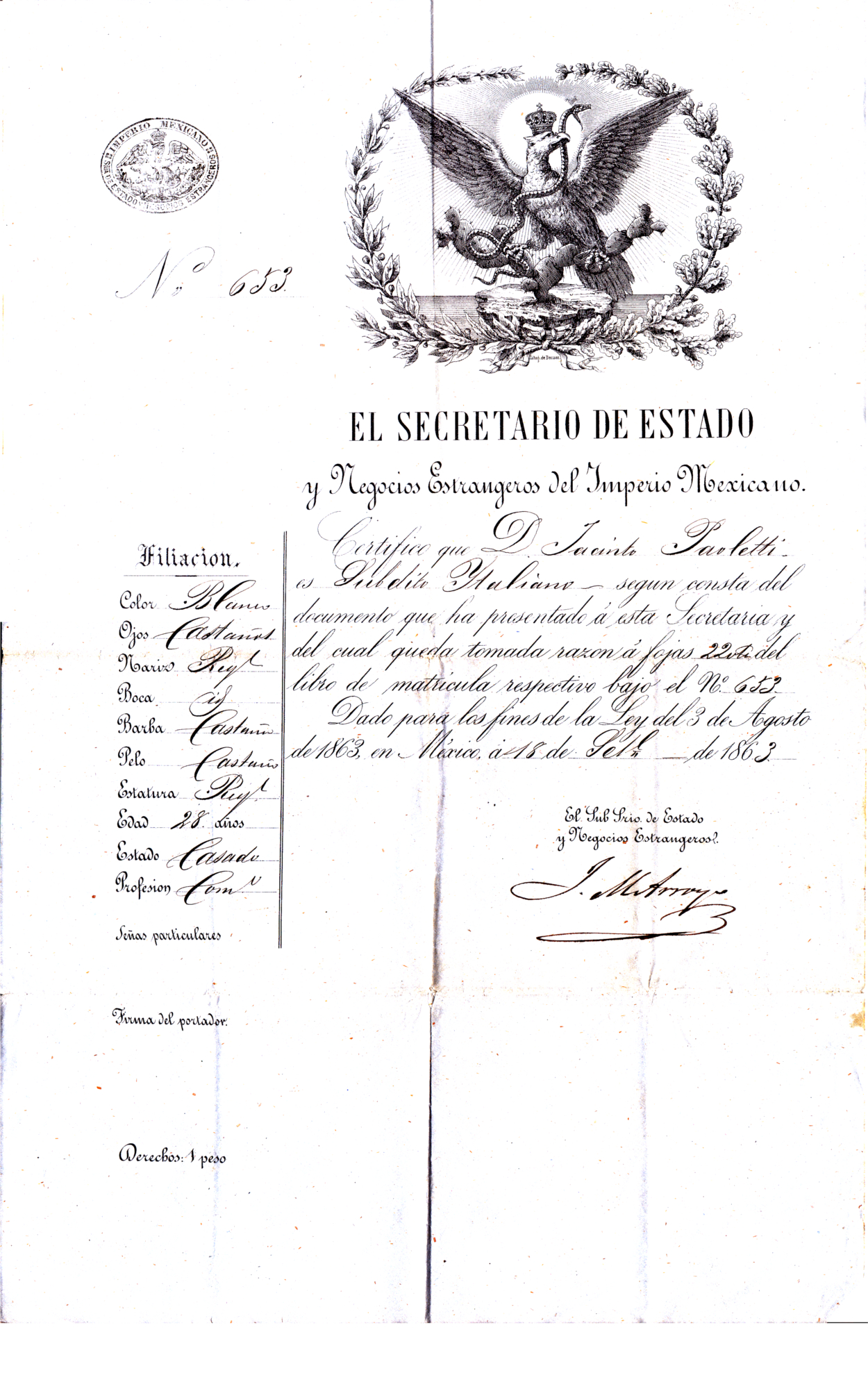 This document serves as historic reference to a date in an article